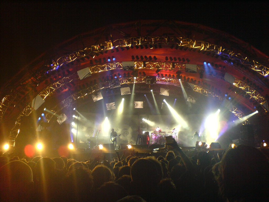 The photo shows Tool appearing at the Roskilde Festival in 2006.